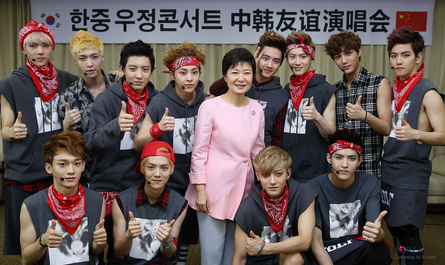 President Park Geun-hye’s state visit to China